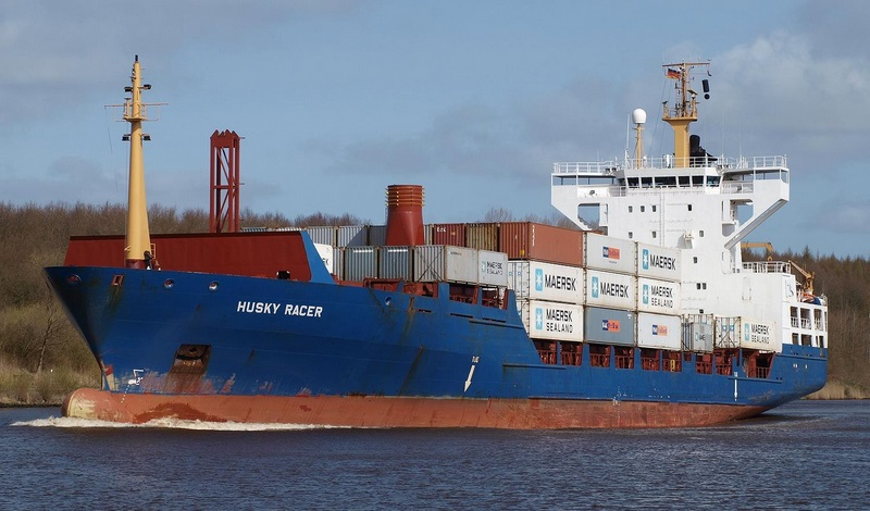 Husky Racer, Kiel Canal, 2010-04-16, photo by Jens Dohrn